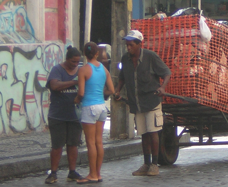 Garbage Collection in Recife, Brazil